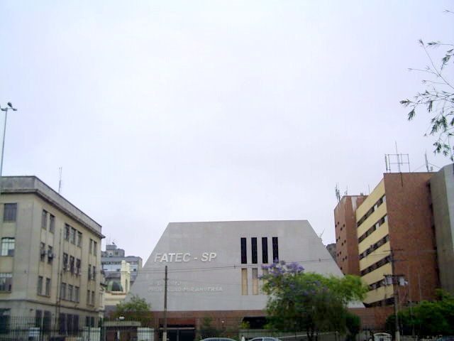 Building of FATEC in São Paulo City, Brazil.